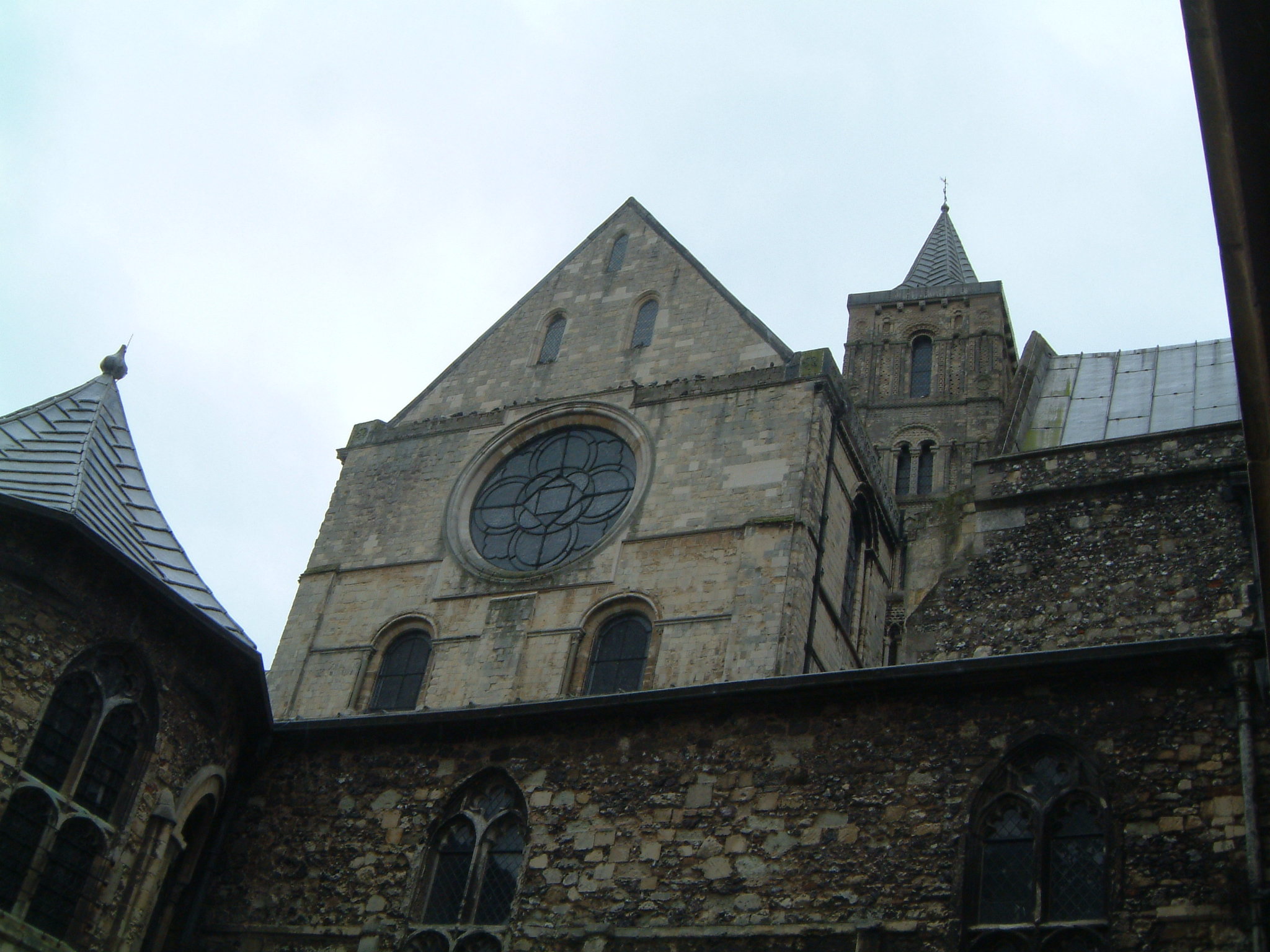 Picture taken from yard of Canterbury Cathedral